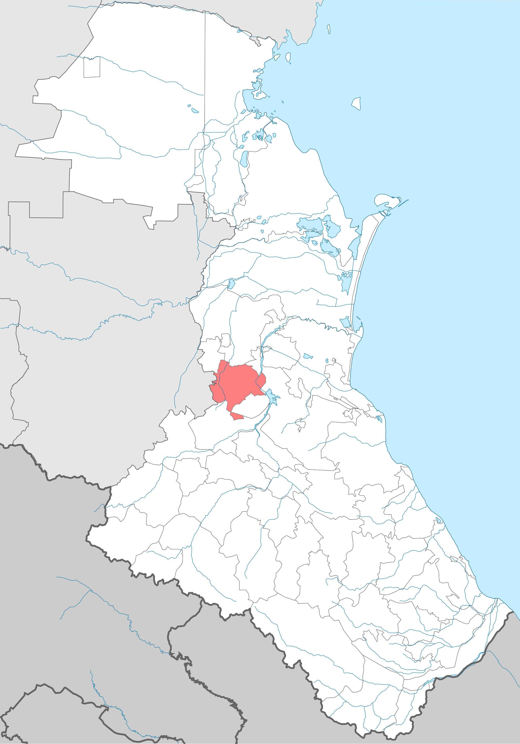 Kazbekovsky district. Locator Map of Dagestan (Russia)